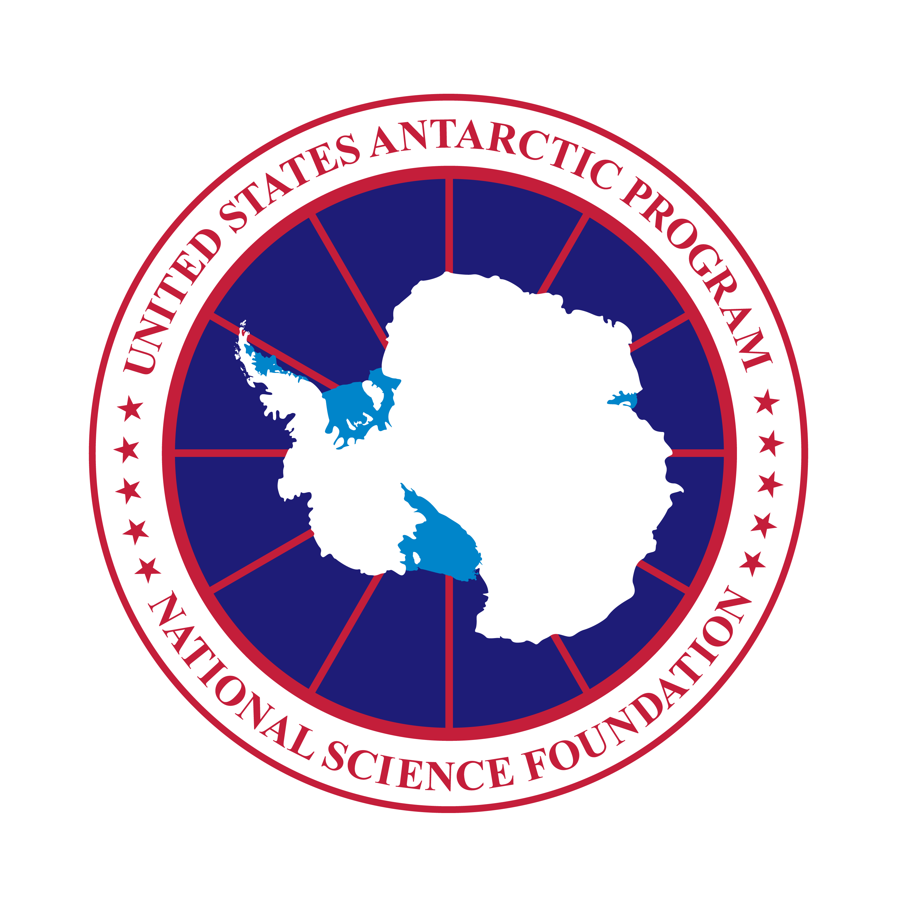 This is the official logo of the United States Antarctic Program.